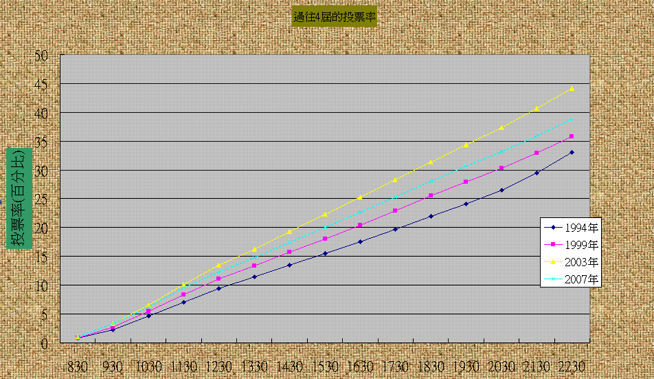 election rate of last 4 HK DC election